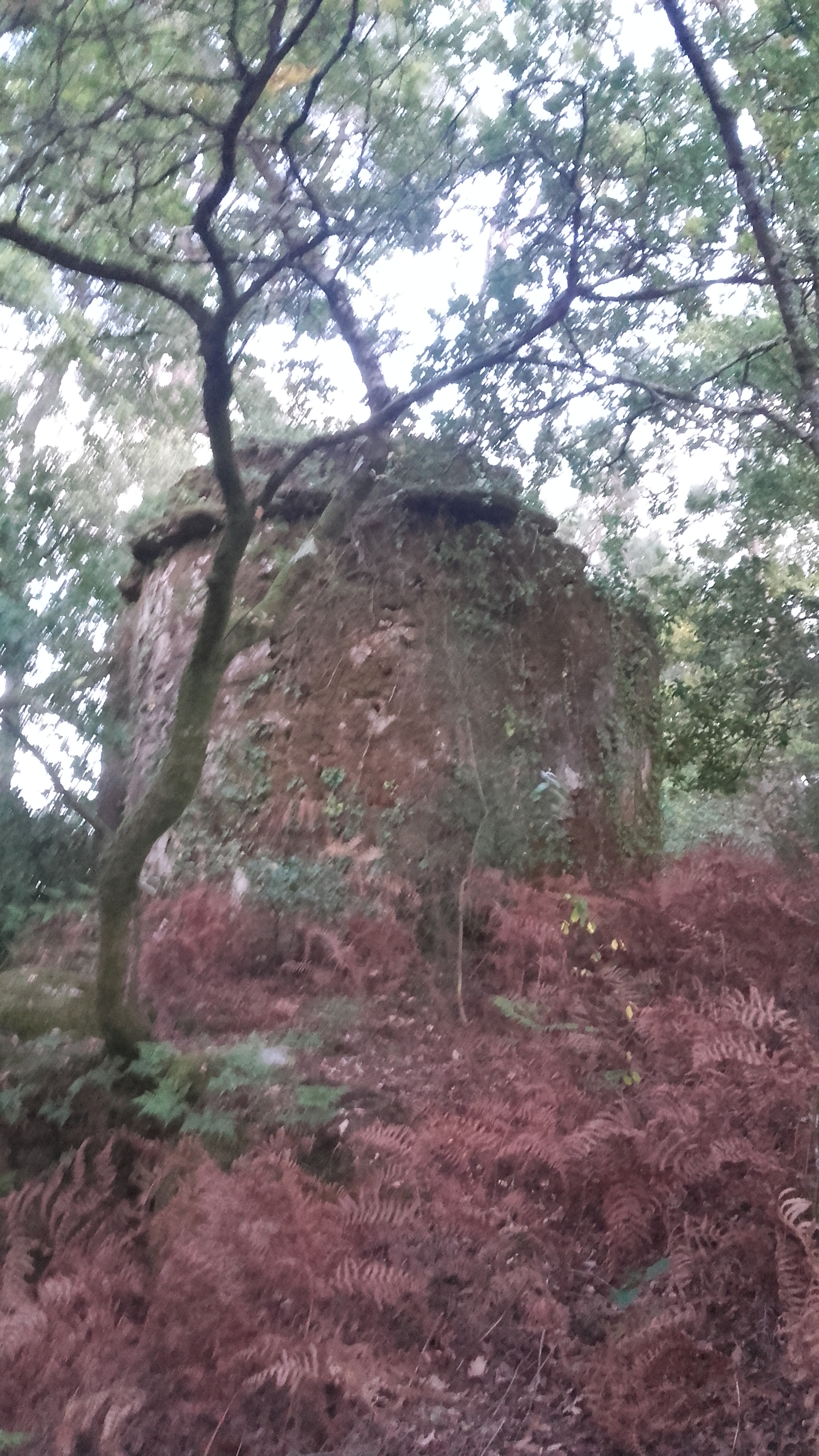 Patrimonio de Rois